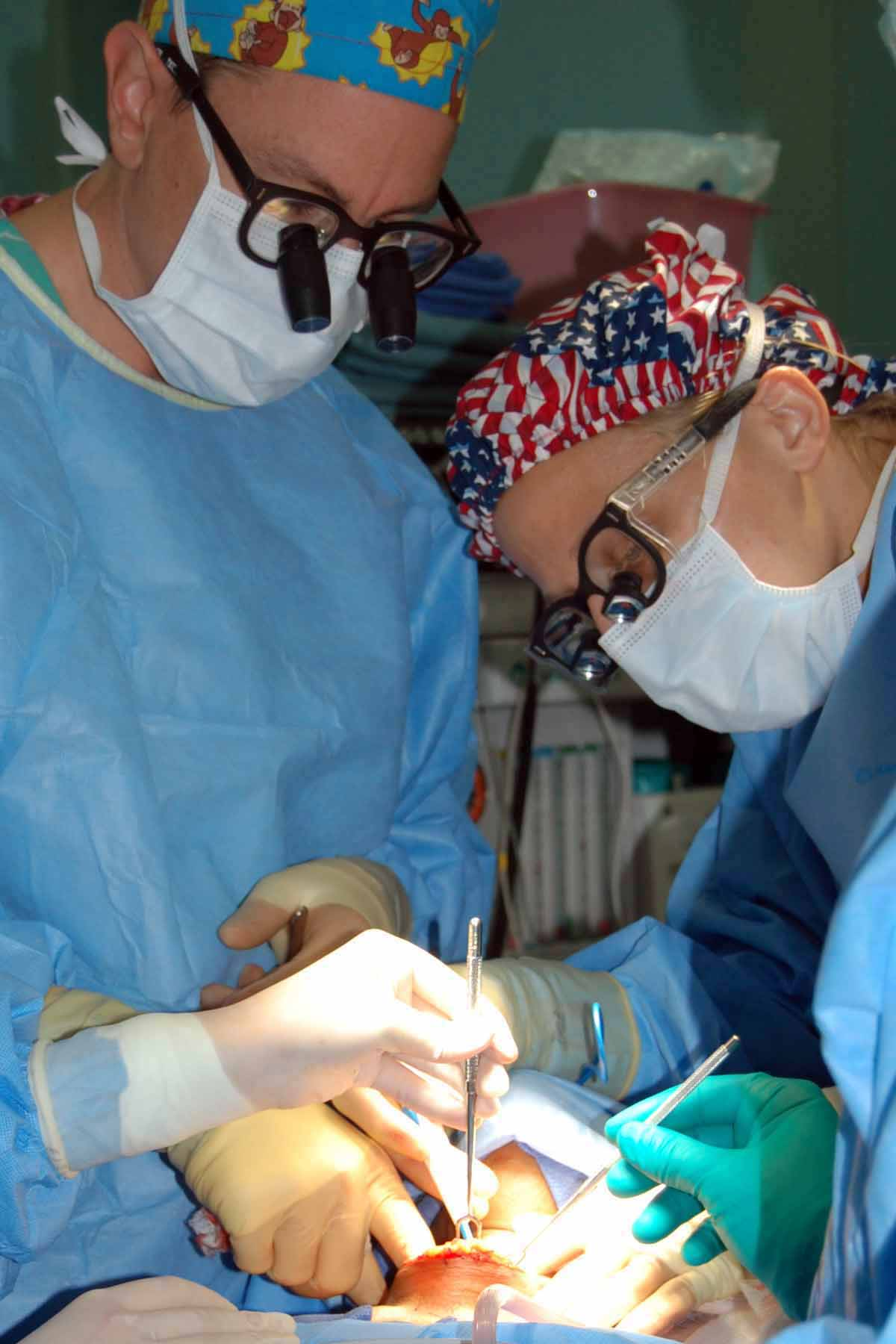 TUMACO, Colombia (June 12, 2009) Cmdr. Shawn Safford and Lt. Krista Puttler perform a left thyroid labectomy on a Colombian patient aboard the Military Sealift Command hospital ship USNS Comfort (T-AH 20). Comfort is deployed on the four-month Continuing Promise 2009 humanitarian and civic assistance mission to Latin America and the Caribbean region. Continuing Promise combines U.S. military and interagency personnel, non-governmental organizations, civil service mariners, academic and partner nations to provide medical, dental, veterinary and engineering services afloat and ashore alongside host nation personnel. (U.S. Air Force photo by Airman 1st Class Clara Karwacinski/Released)